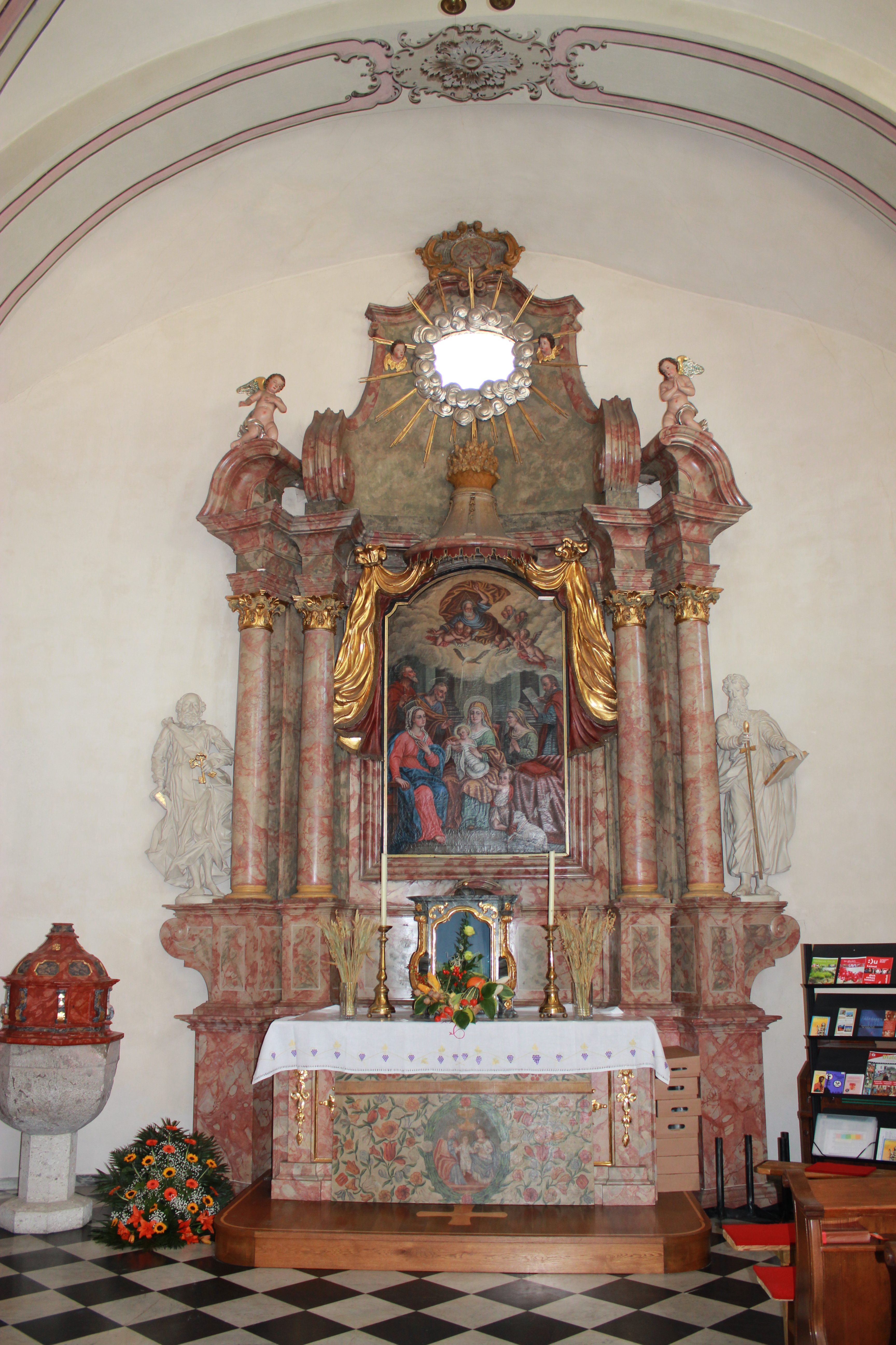 Parish church in Grafendorf in the community of Kirchbach